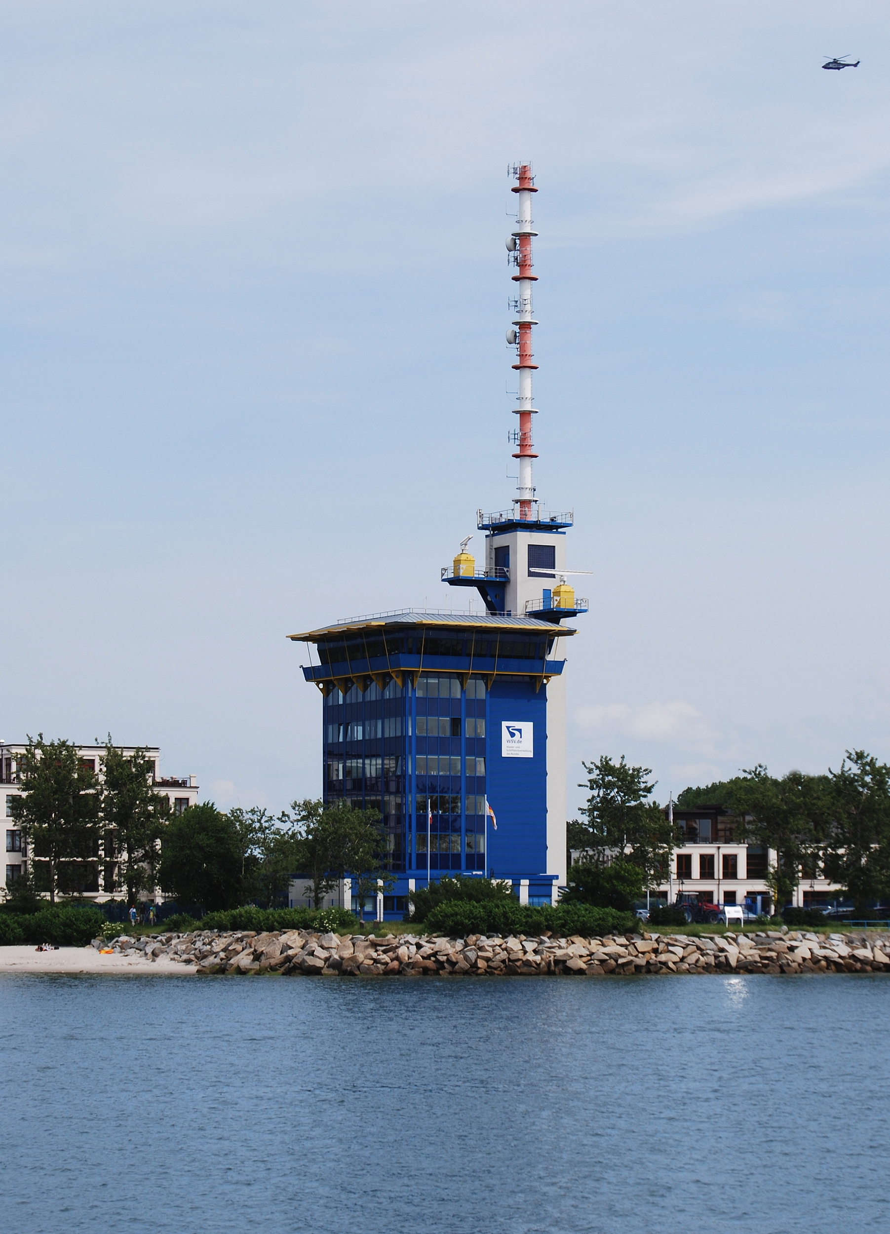 The traffic control center Warnemünde of Wasser- und Schifffahrtsamt Stralsund.